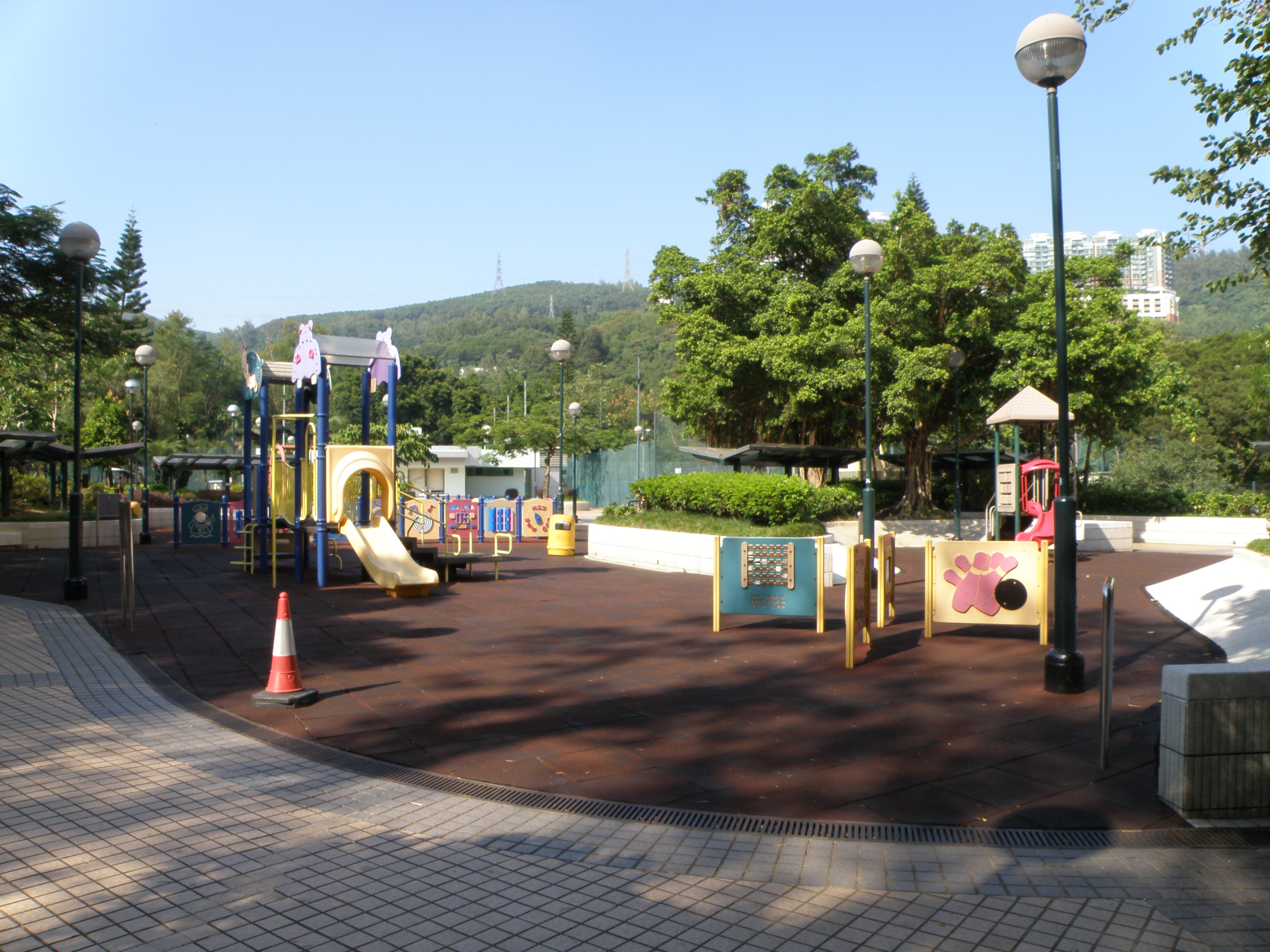 Tsuen King Circuit Playground in Tseun Wan, Hong Kong.